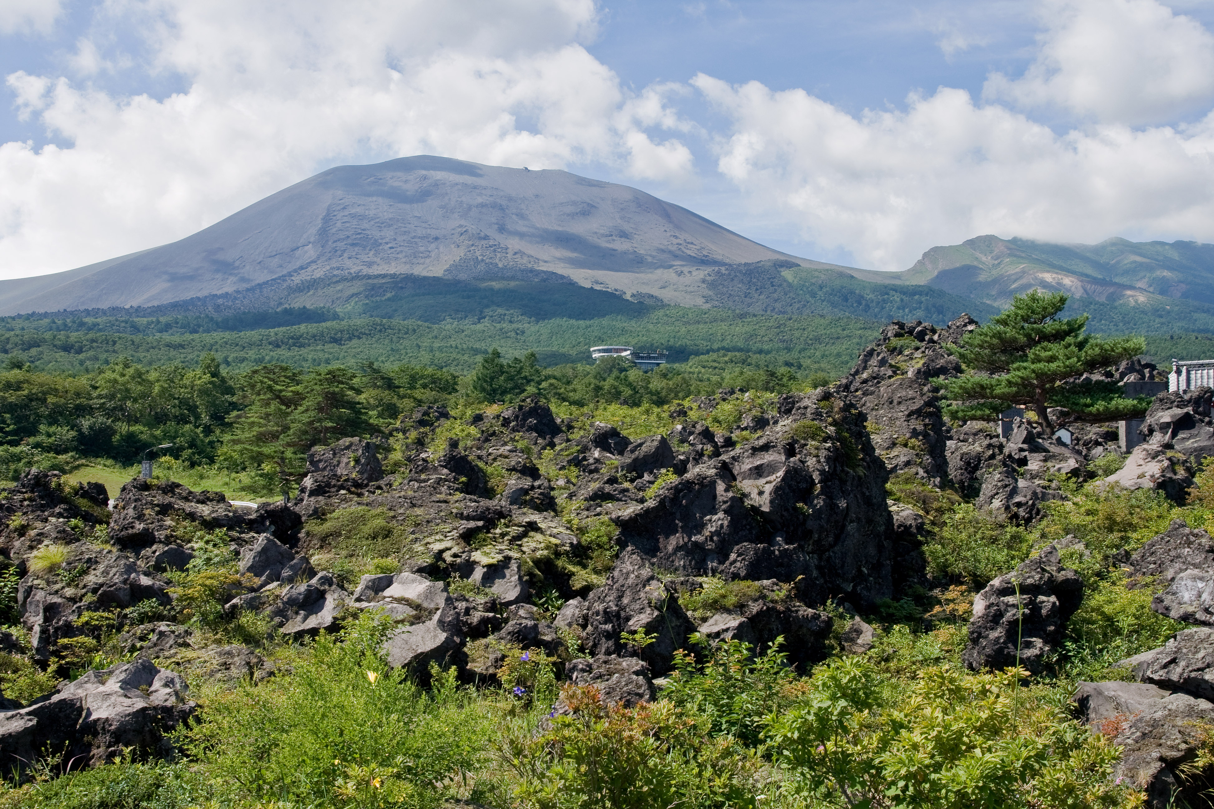 Mt.Asama as seen from Onioshidashi, Tsumagoi Vill., Gunma Pref., Japan